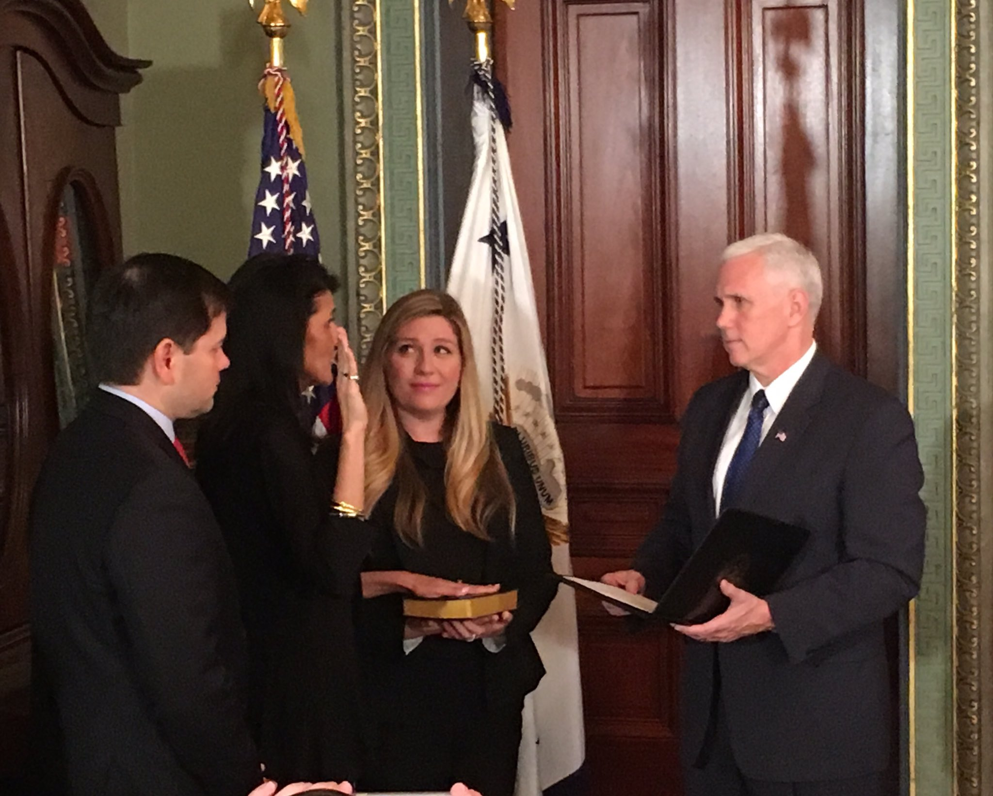 It was my privilege to administer the Oath of Office to the new United States Ambassador to the United Nations @nikkihaley.